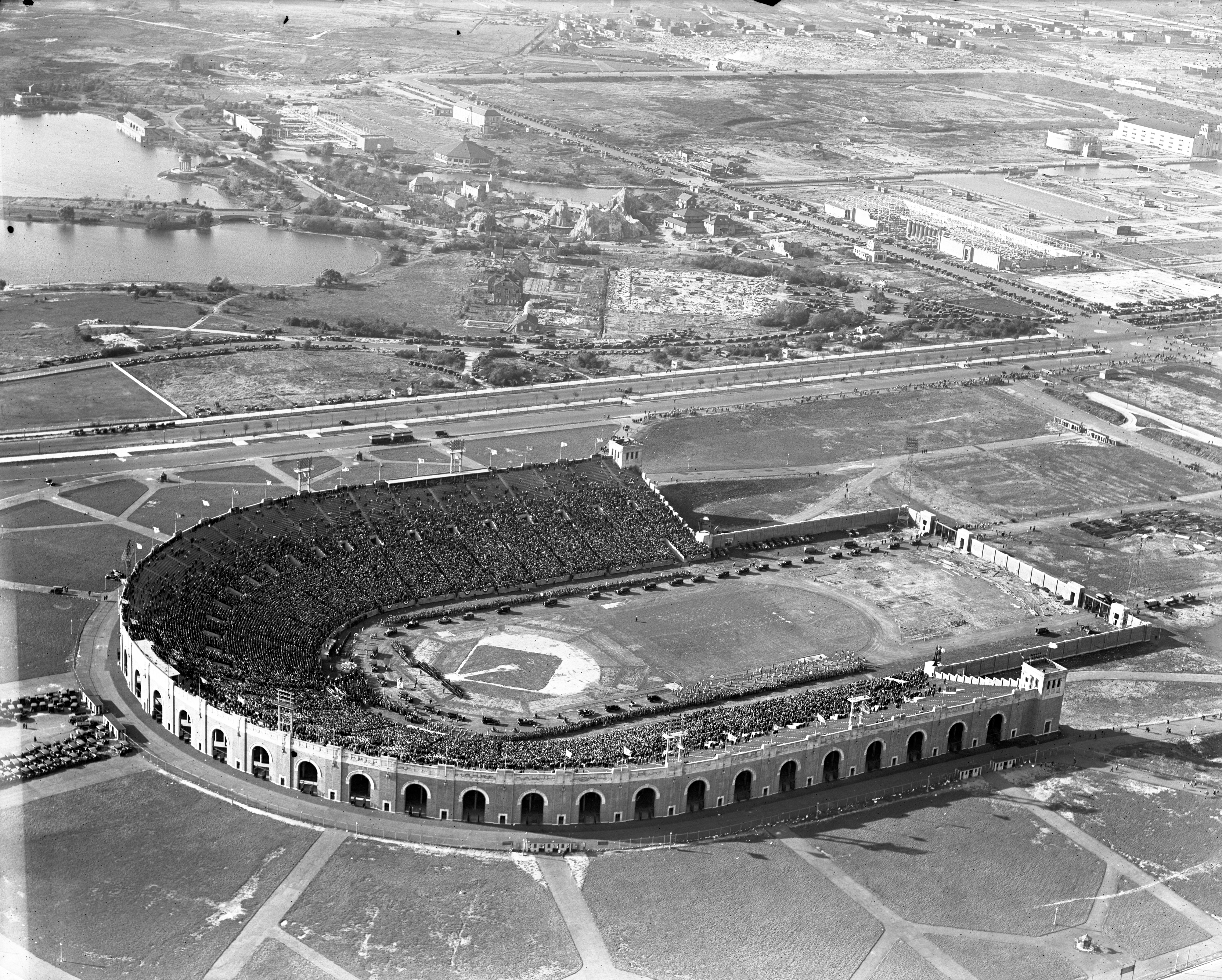 Crowd at Municipal Stadium in South Philadelphia for a visit of Col. Charles A. Lindbergh, October 22, 1927.